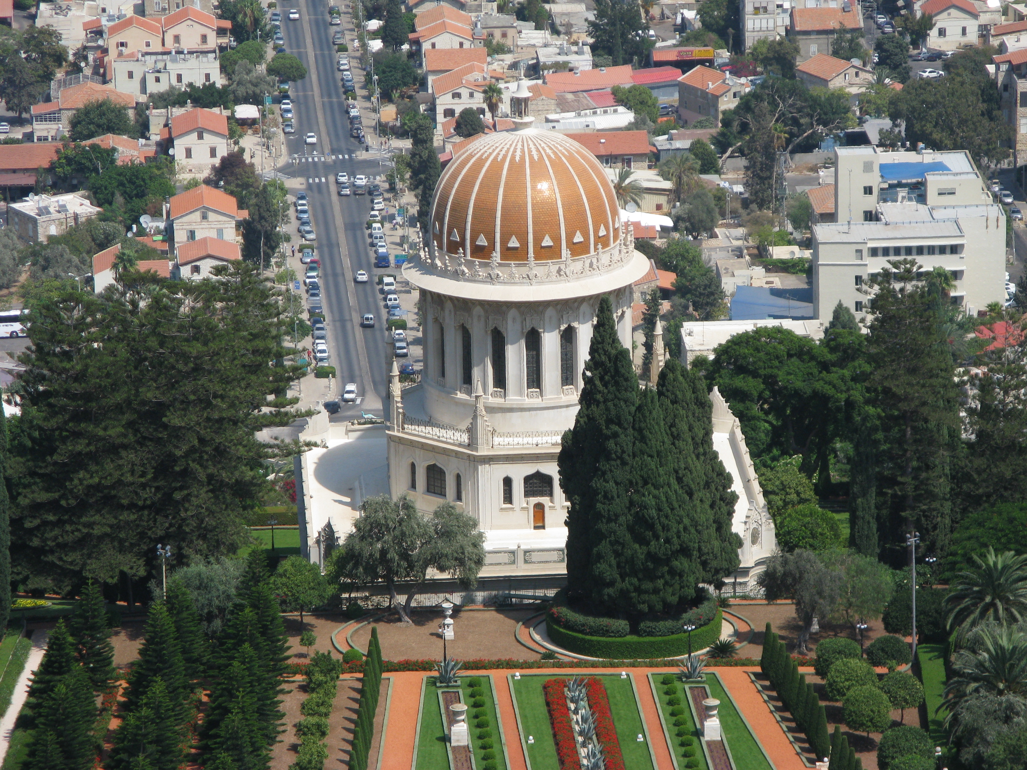 Shrine of the Báb